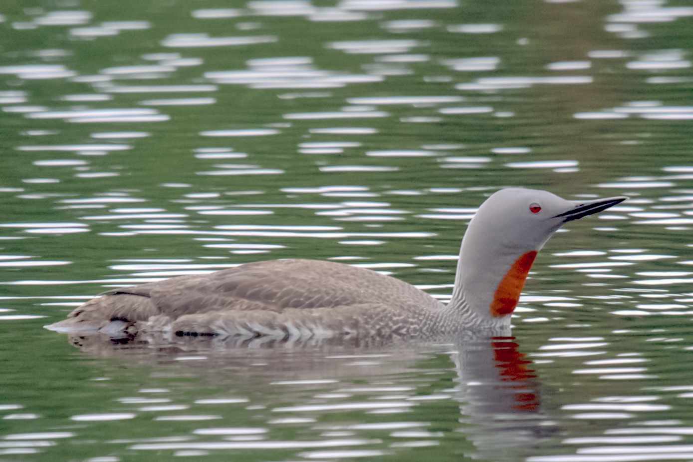 Red-throated Loon